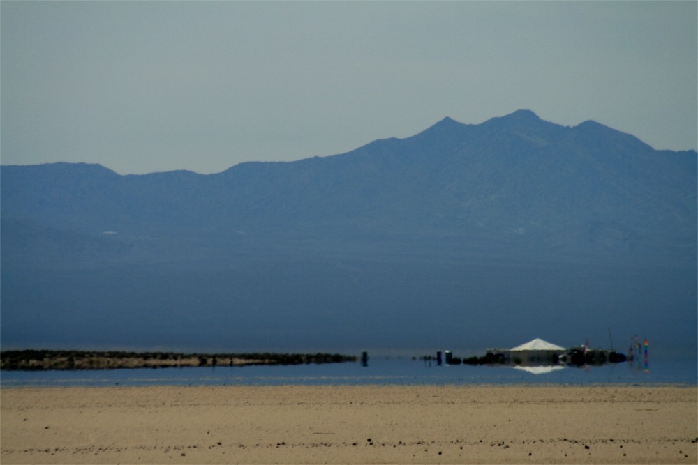 The lake you see in the picture is not real. It is an inferior mirage that sometimes are seen in deserts. Photographed by in Primm, Nevada on April 4, 2007.